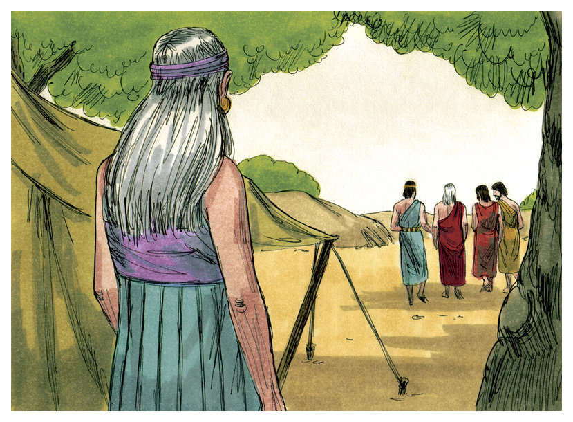 Biblical illustration of Book of Genesis Chapter 18